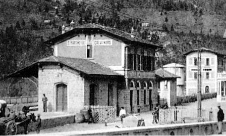 San Martino de Calvi Nord railway station